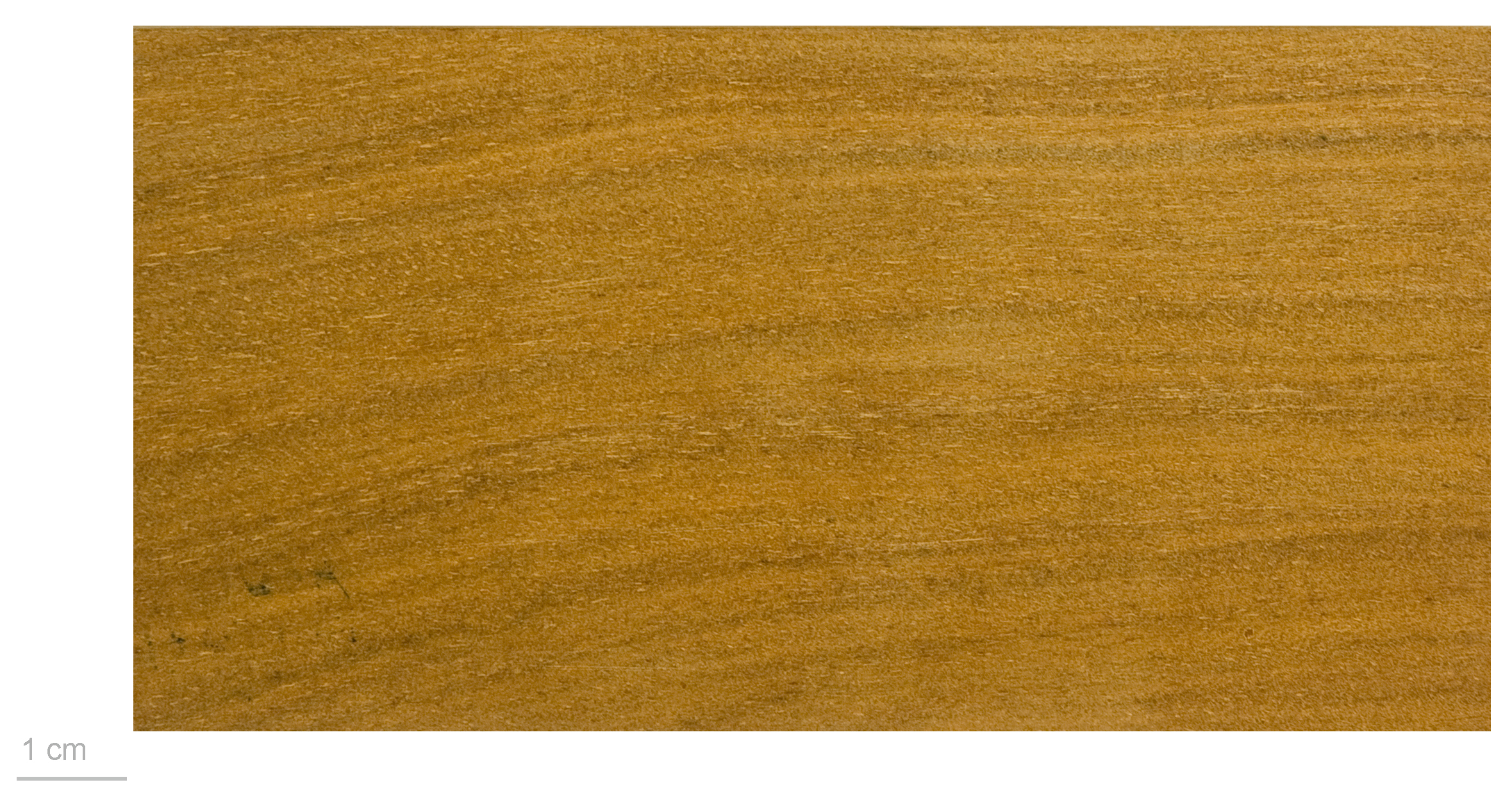 Neoguillauminia cleopatra, wood